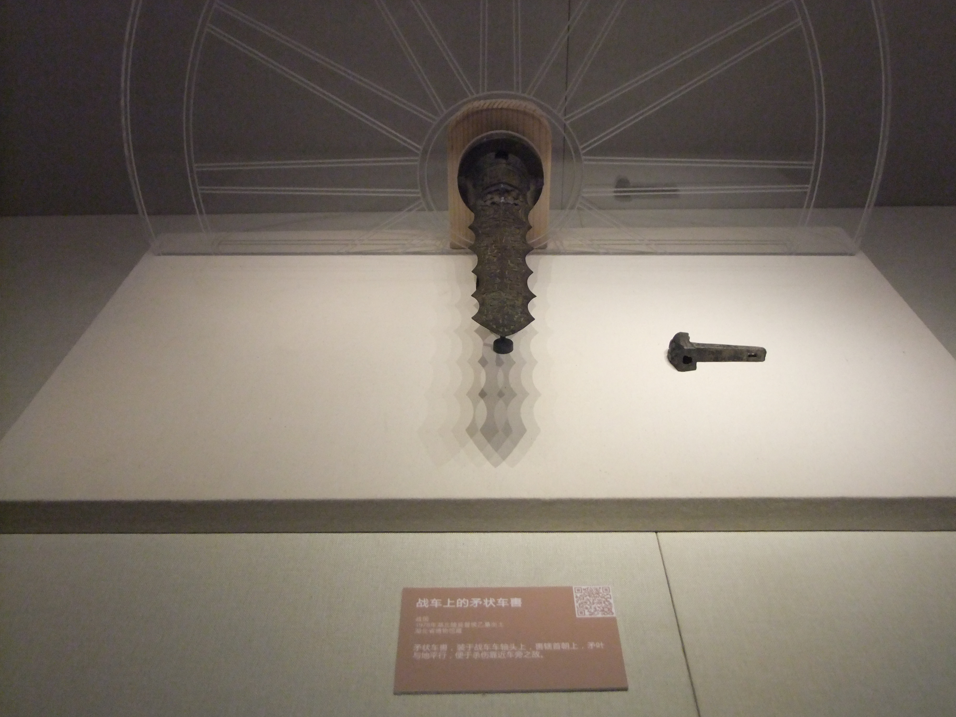 Chariot axle, Warring States (475-221 BC). It is preserved in the Hubei Museum. It was excavated in 1978 from central China's Hubei province.